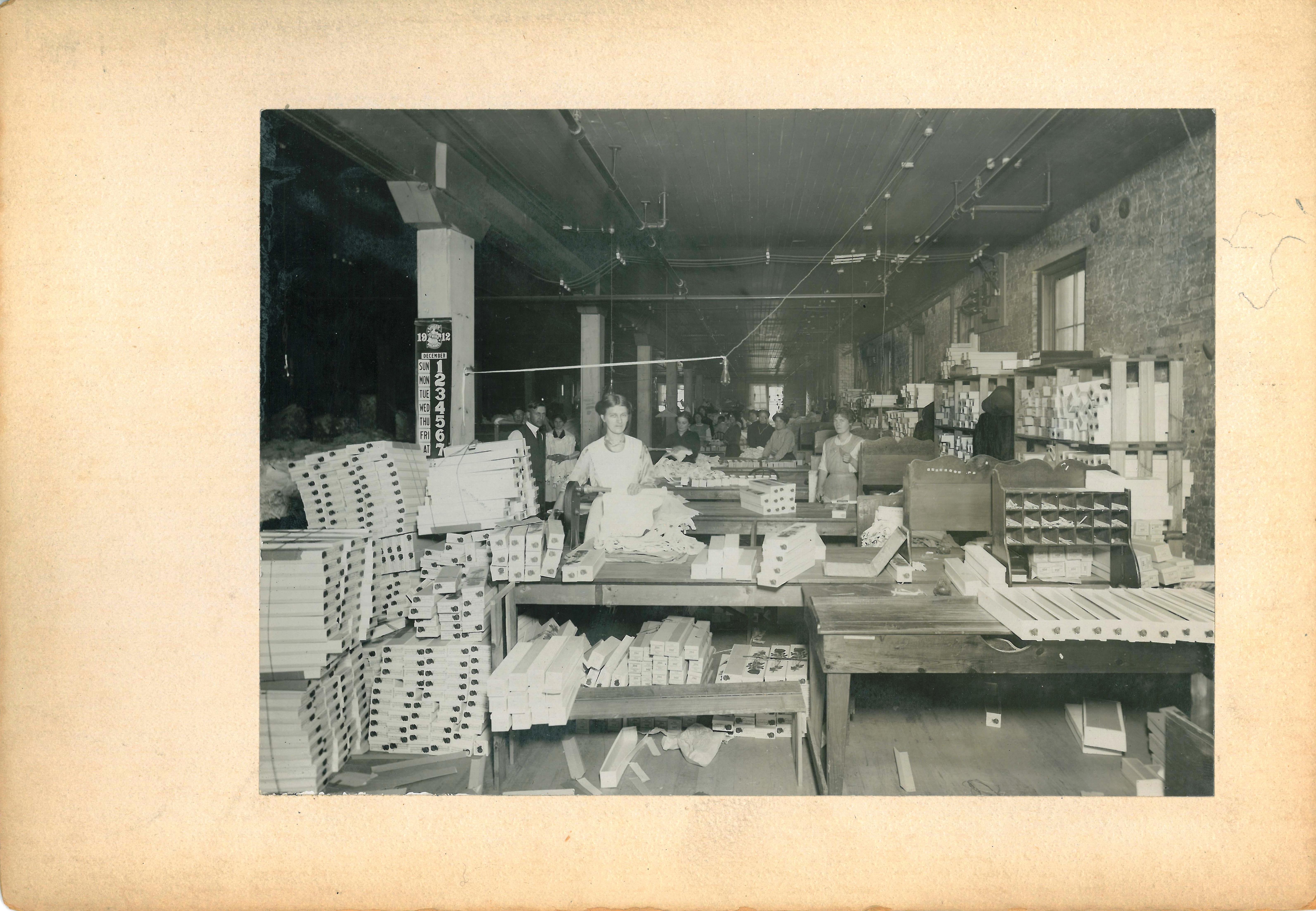 Views of the Kalamazoo Corset Company factory, located at the corner of Church and Eleanor streets in Kalamazoo, MI. Photos probably taken Friday, 6 December 1912, just months after the historic labor strike. Read the full story